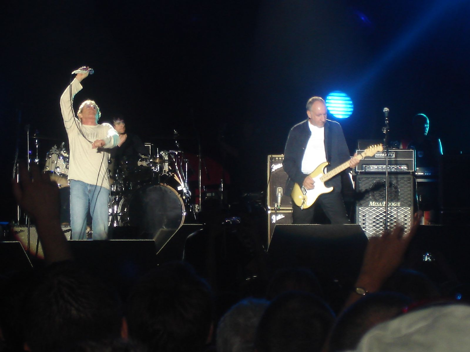 Daltrey trying to do his usual on-stage tricks